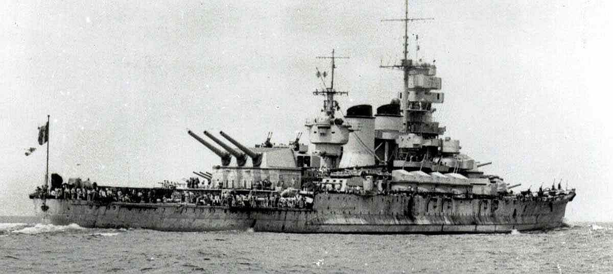 The Italian battleship Roma